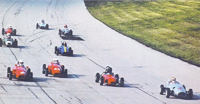 Race of formula junior cars, texas. picture from Bandini book